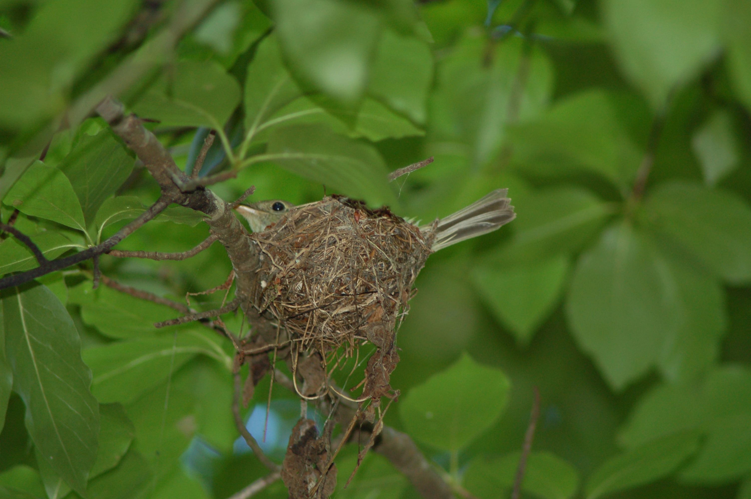 Acadian Flycatcher incubating eggs at a picnic area in state forest in Arkansas.